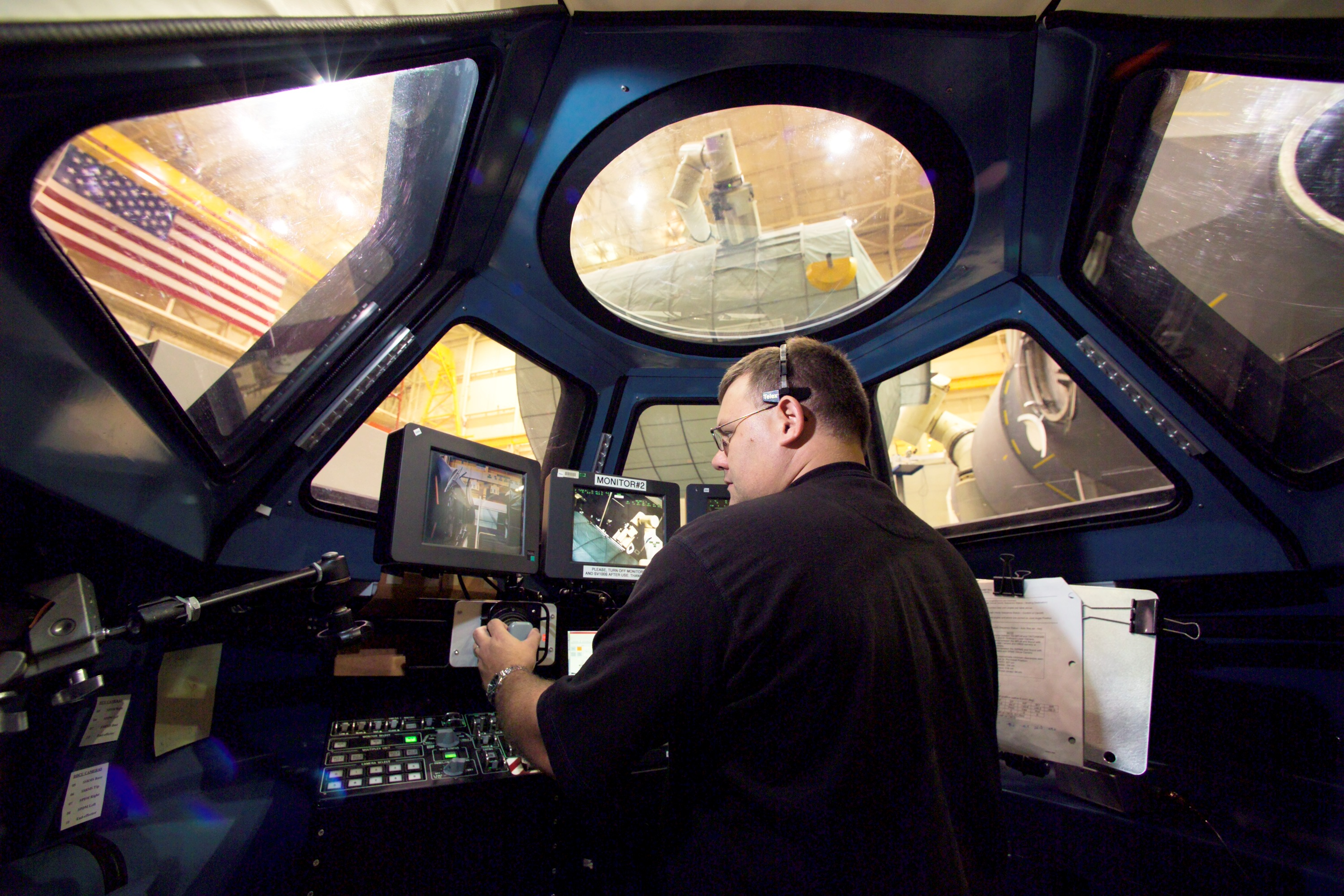 Paul Williamson, crew instructor, operates a simulated version of the International Space Station robotic arm, Canadarm2, in the Multi-use Remote Manipulator Development Facility at the Johnson Space Center. A robotic control station for operating the arm is setup in a mockup of the Cupola module where arm operations will be housed in the future on Station.